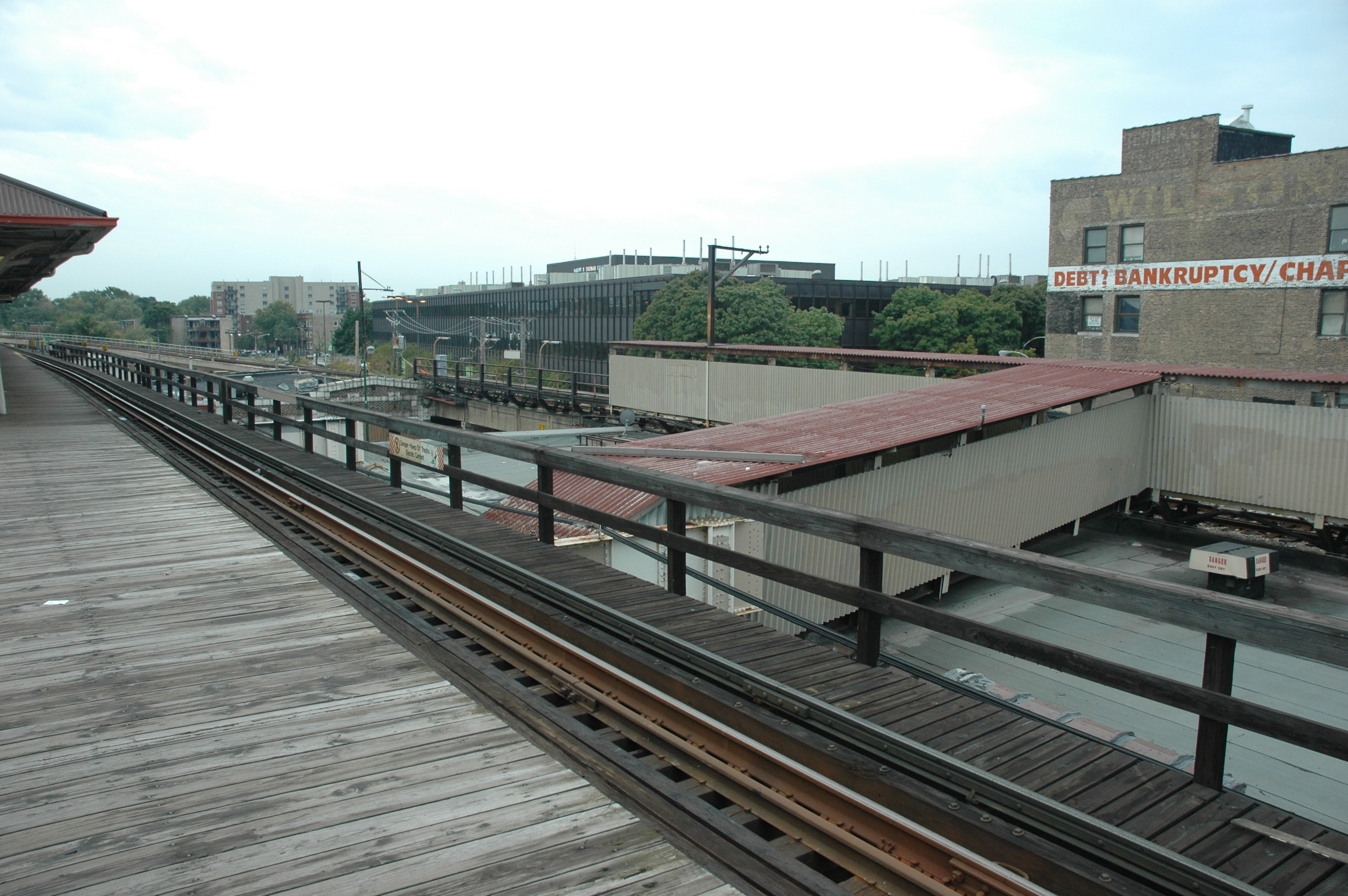 Wilson Stop